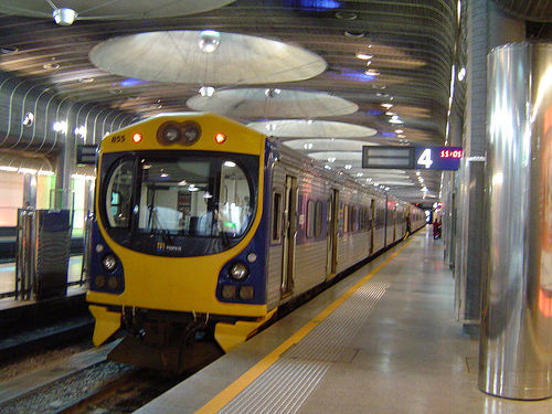 An ADL class DMU at Platform 4 at Britomart Train Station, Auckland, New Zealand.